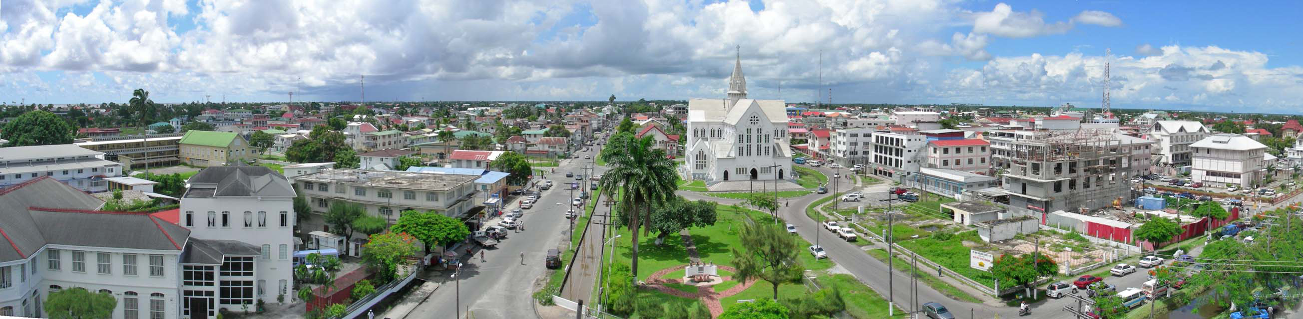 This is a panoramic view of Georgetown, Guyana looking in the direction of St. George's Cathedral. It is an Anglican church and the building is claimed to be the World's Largest Freestanding Wooden Structure.